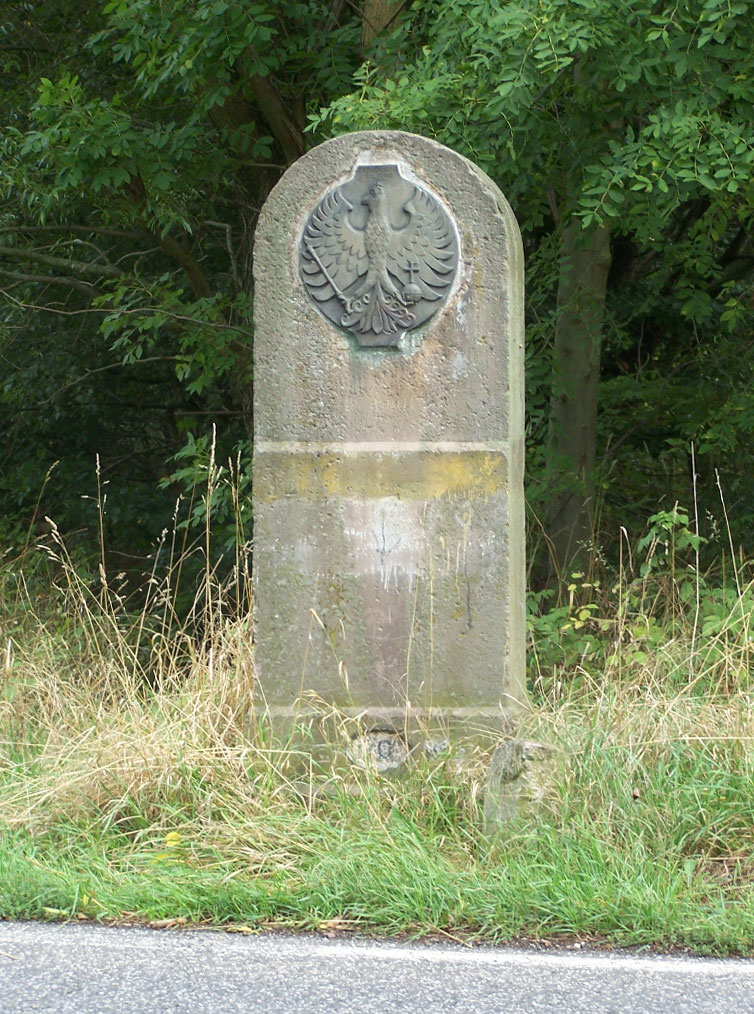 The Grenzadler near village Hönebach is a special Stone with a metal plate showing the prussian coat of arms - to mark the frontier line.